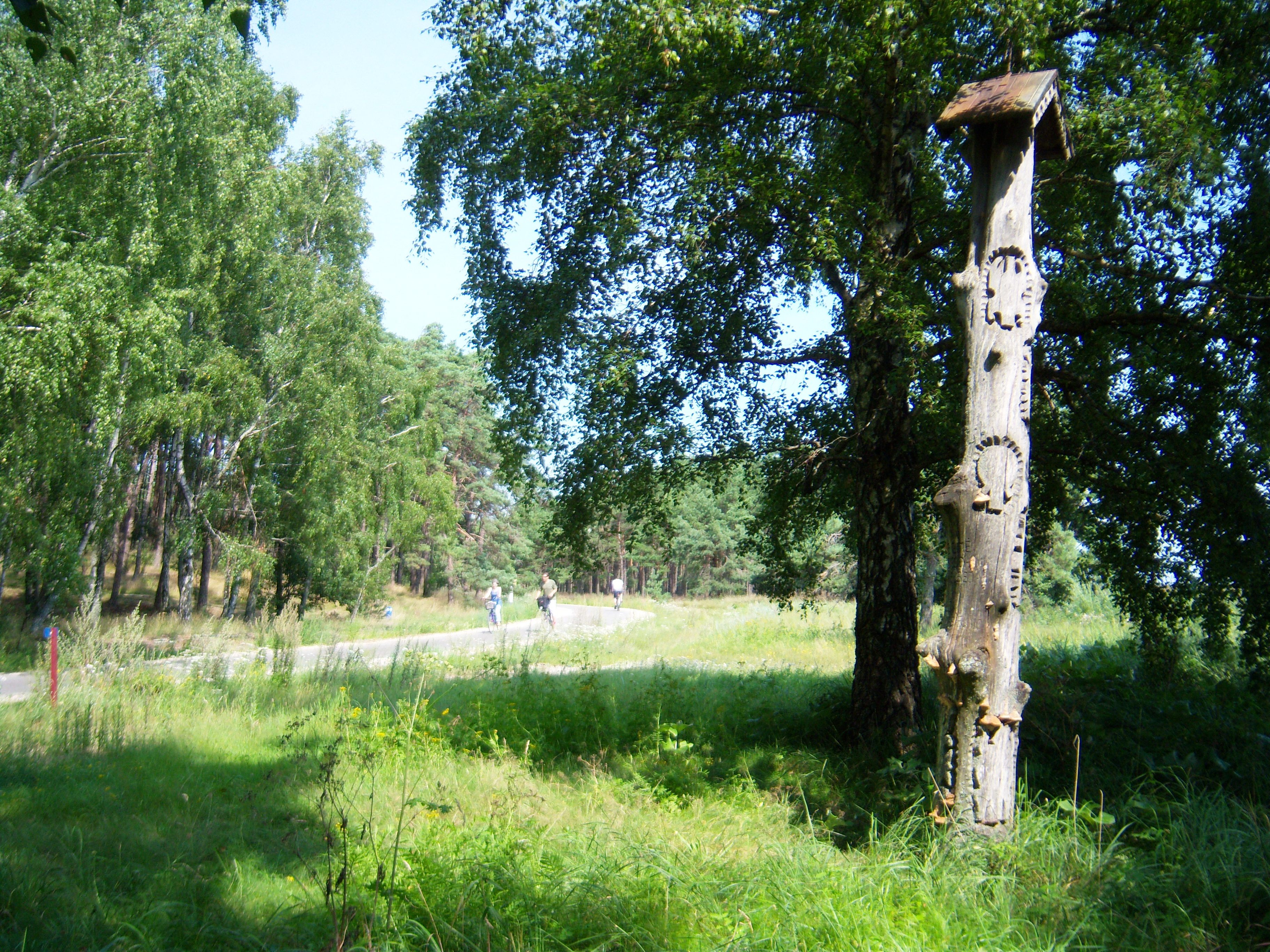 Commemoration sculpture to Karvaičiai village and Liudvikas Rėza by Karvaičiai Dune near Preila, Lithuania